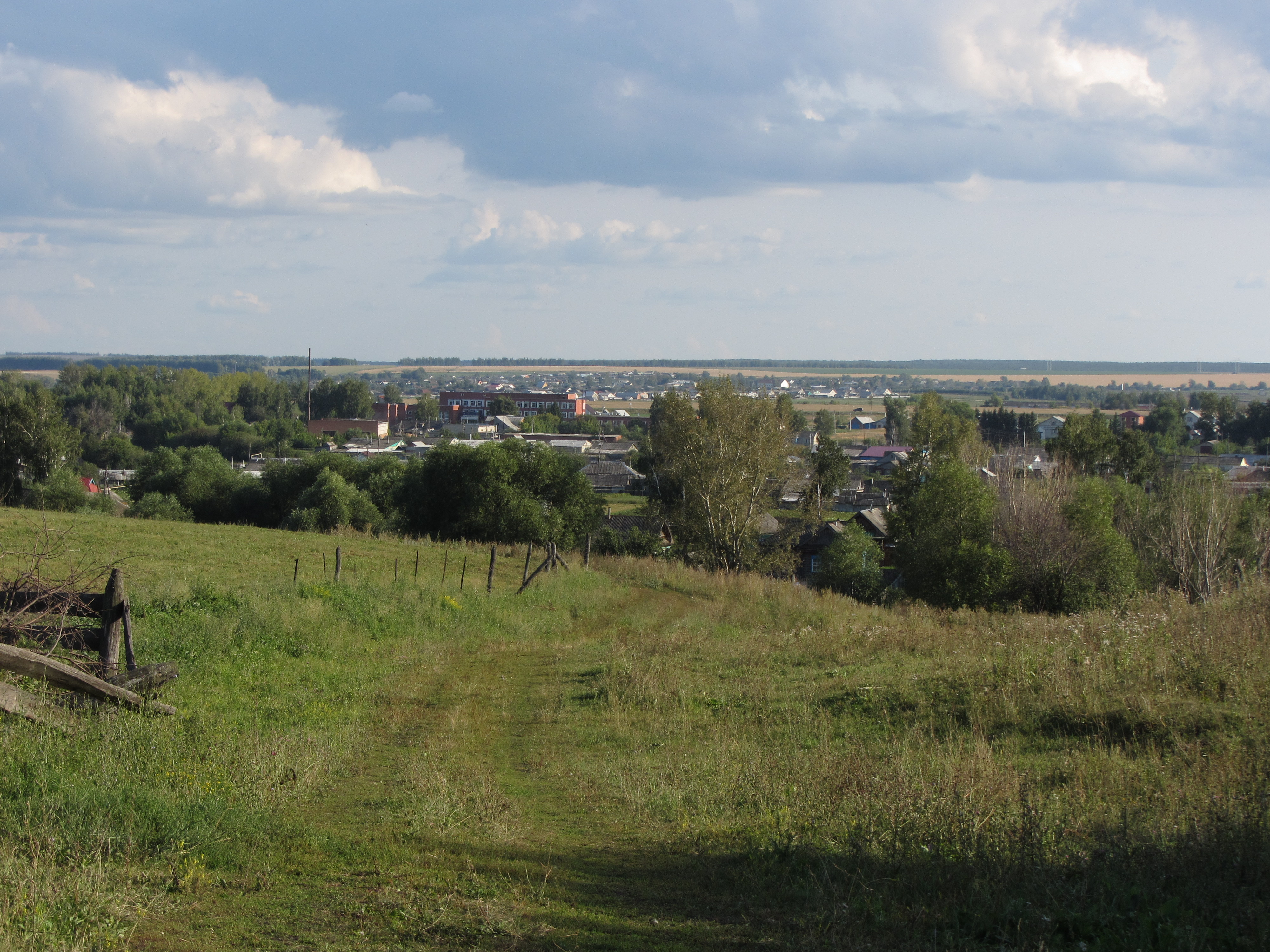 Дубёнский ПТУ